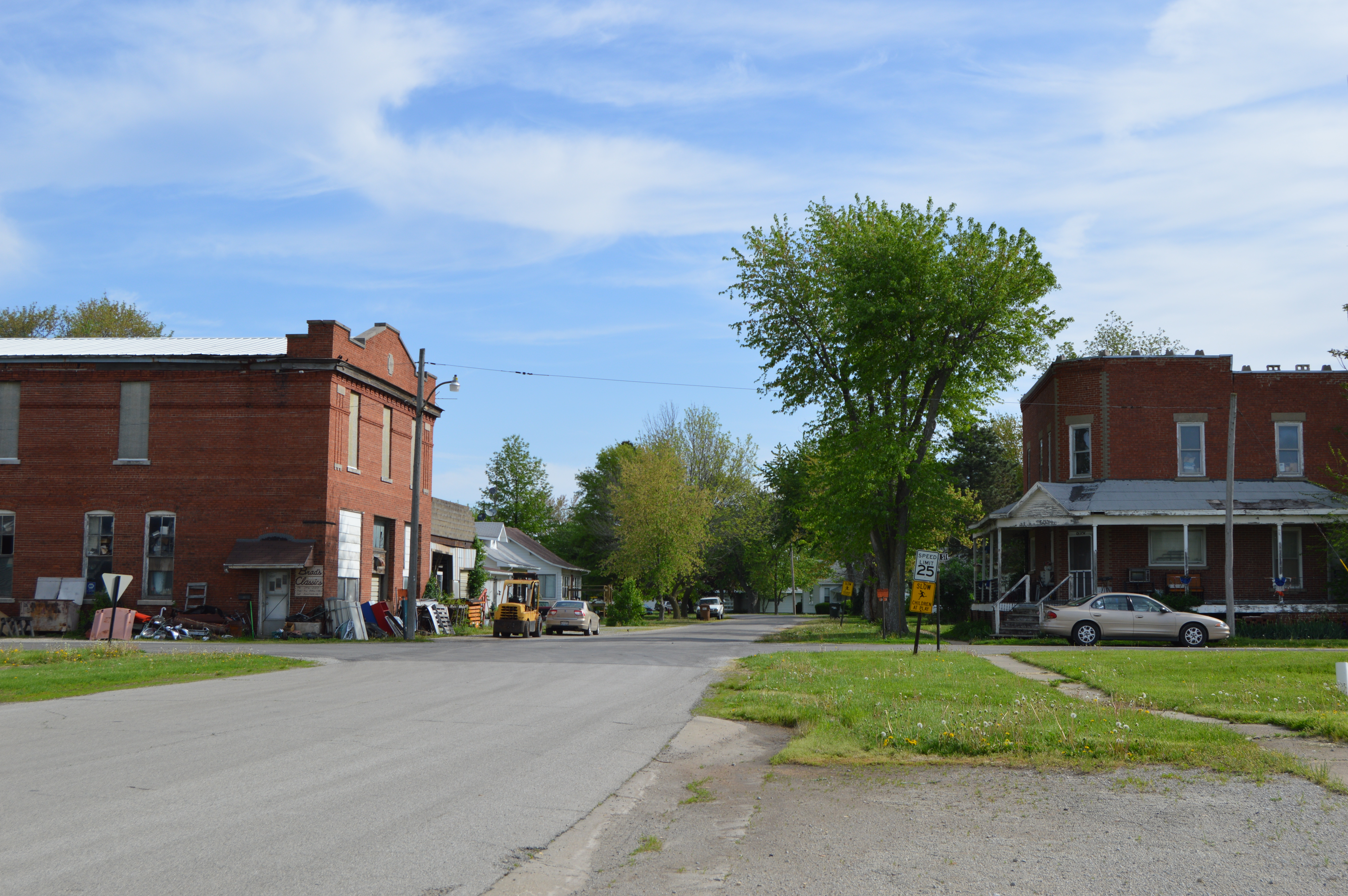 Looking northward on Missouri Street at the Sixth Street intersection in Hindsboro, Illinois, United States. The brick building on the left was constructed in 1910.